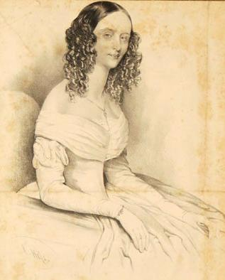 Portrait of Italian opera singer Teresa De Giuli Borsi (1817-1877)